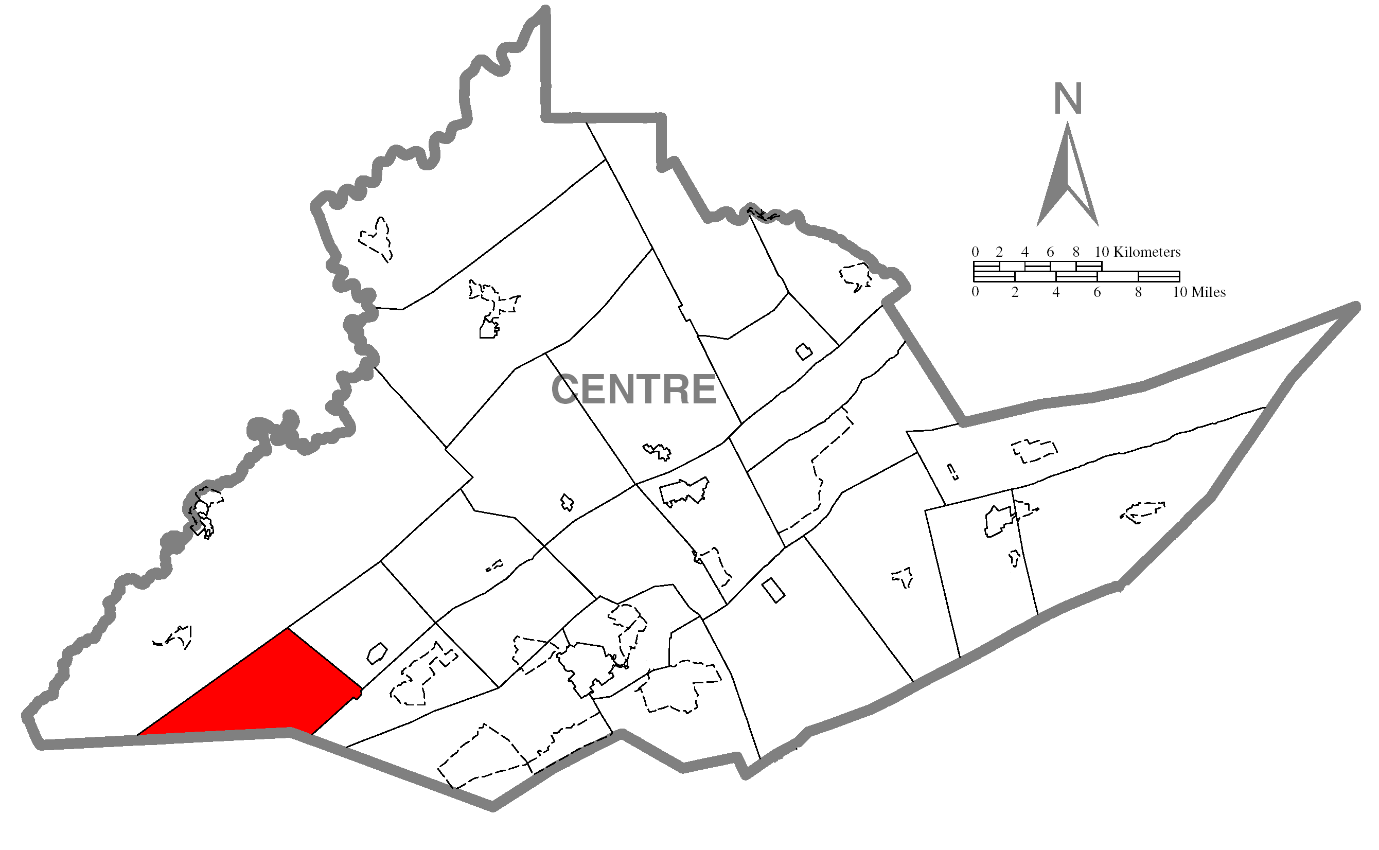 A map of Centre County showing Taylor Township, Pennsylvania (alternate) highlighted on the map.